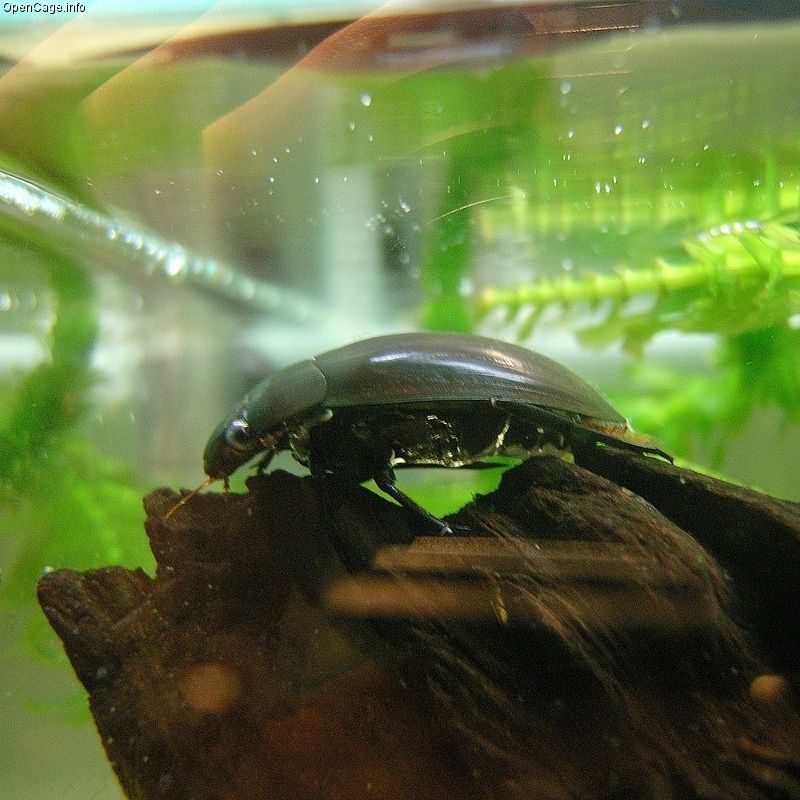 An adult Hydrophilus acuminatus